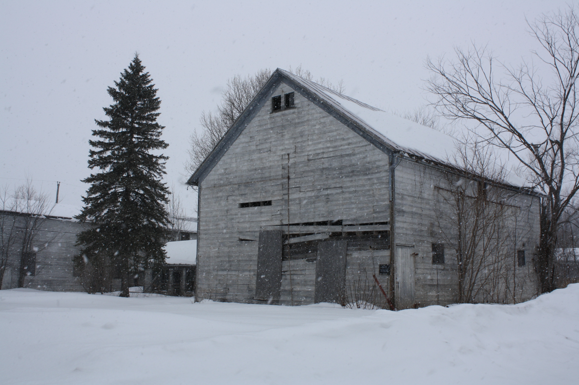 A structure in the Haese Memorial Village Historic District in Forest Junction, Wisconsin.